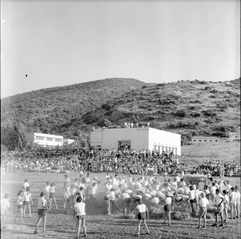 Bat-Sheva House, Yagur , Jewish holidays